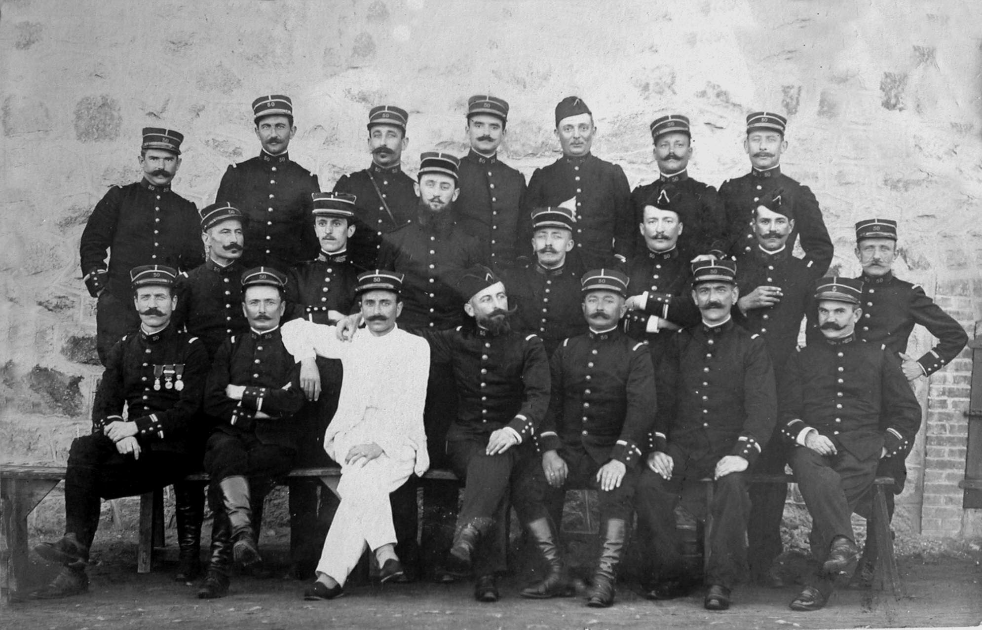 Officers of the 50th Infantry Regiment in 1908